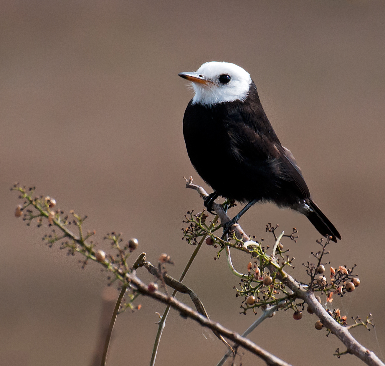 A male White-headed Marsh-tyrant in Piraju, São Paulo, Brazil.